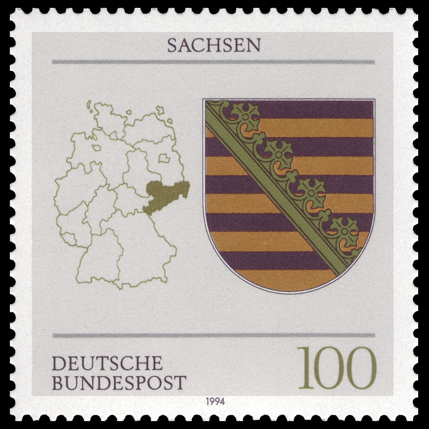 Coats of arms of the 16 states of Germany Ausgabepreis: 100 Pfennig First Day of Issue / Erstausgabetag: 10. März 1994 Michel-Katalog-Nr: 1713 Designer: Jünger